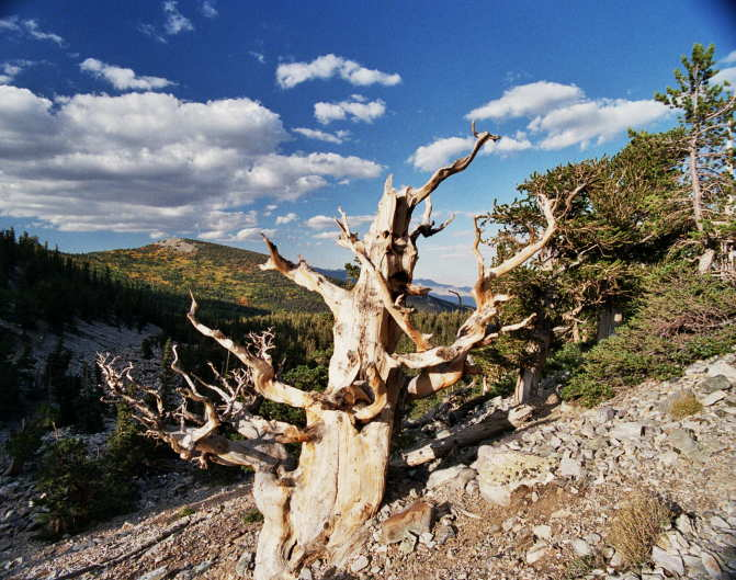 Bristlecone Wheeler